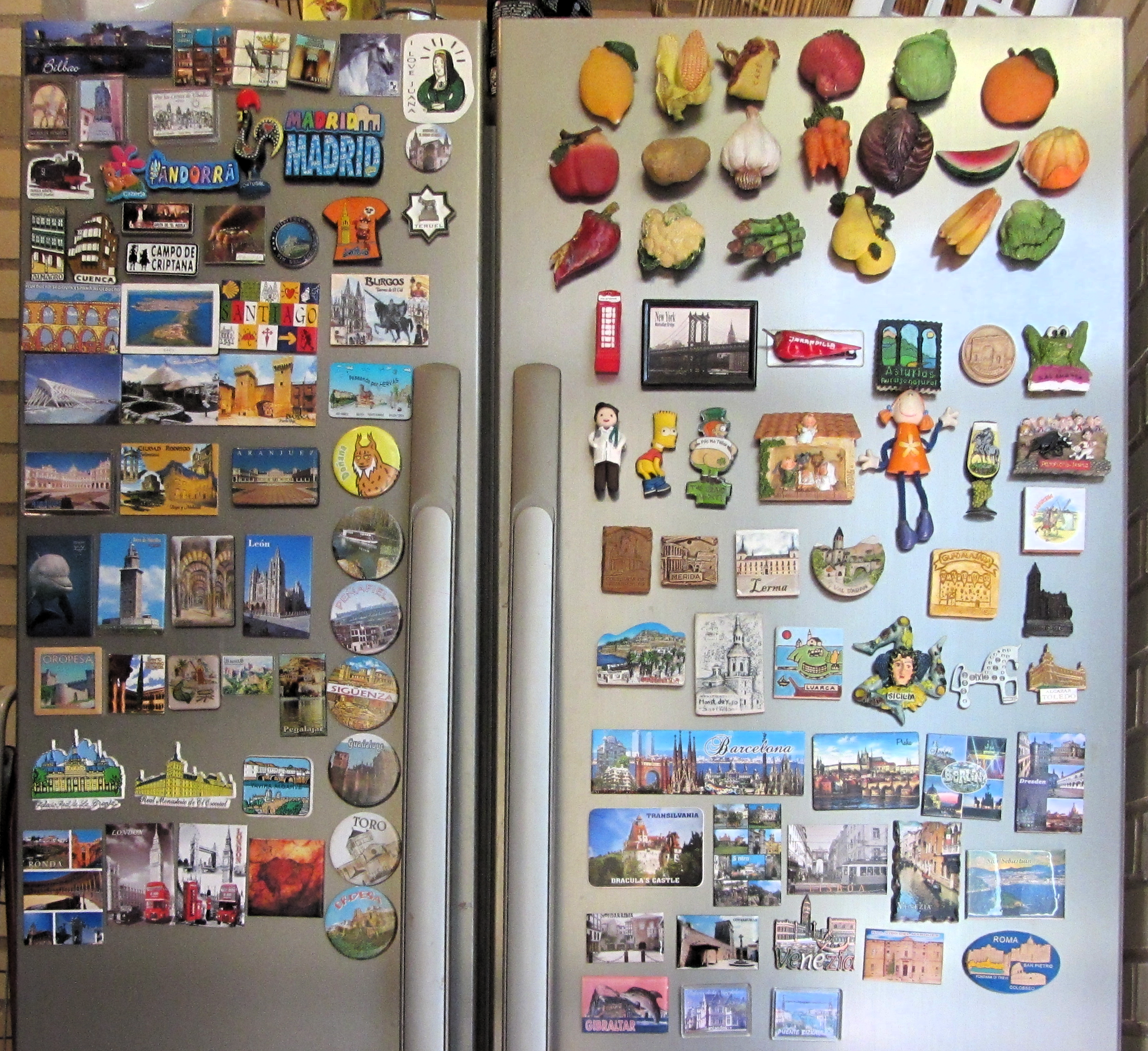 A collection of refrigerator magnets for kitchen decor. Magnets on grey refrigerator.